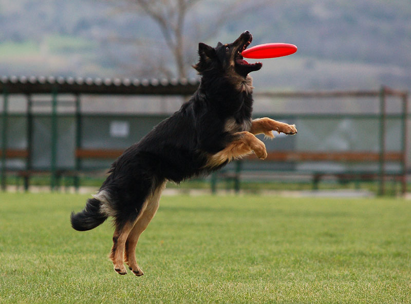 dogfrisbee